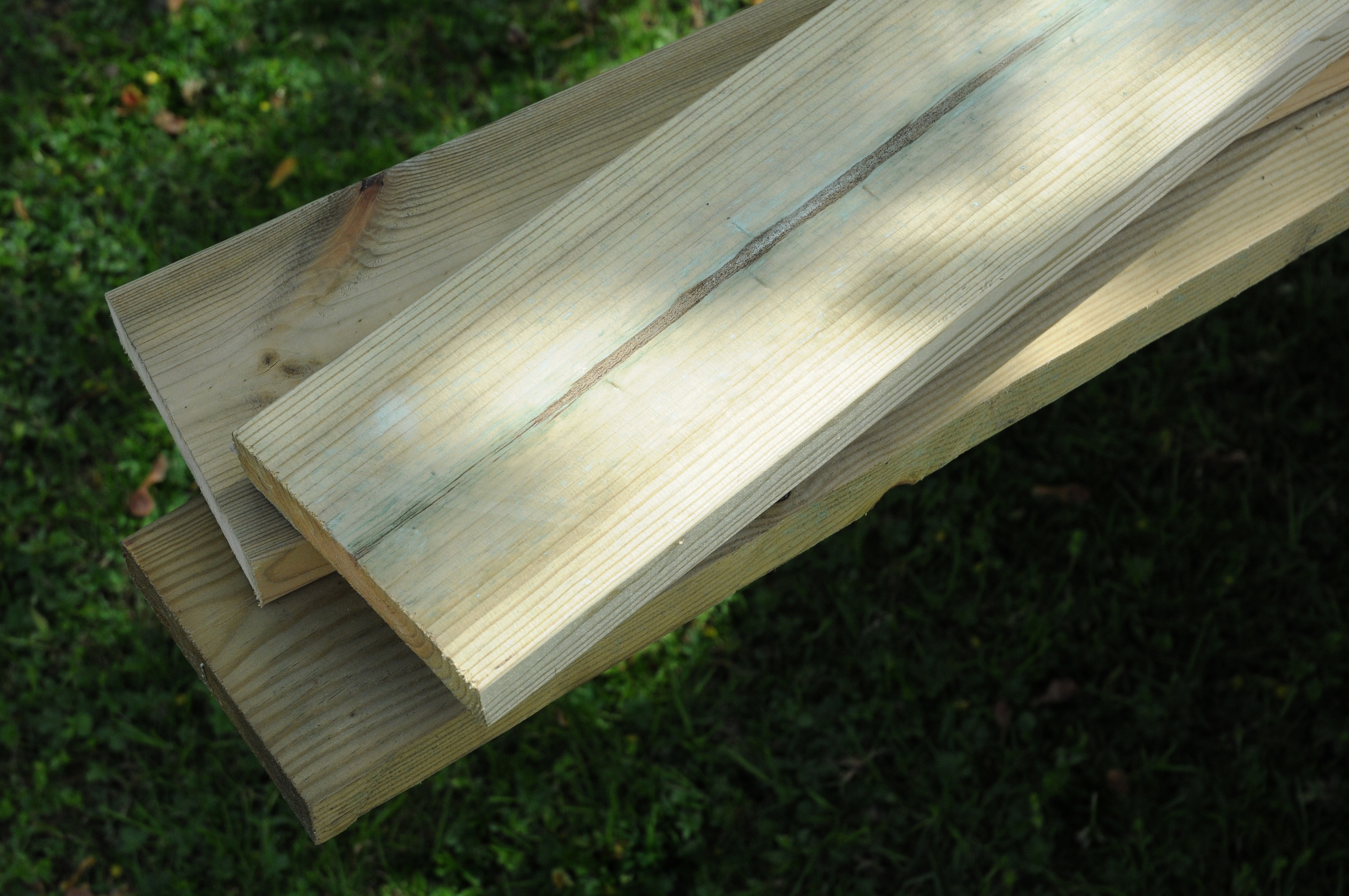 Pressure-treated wood